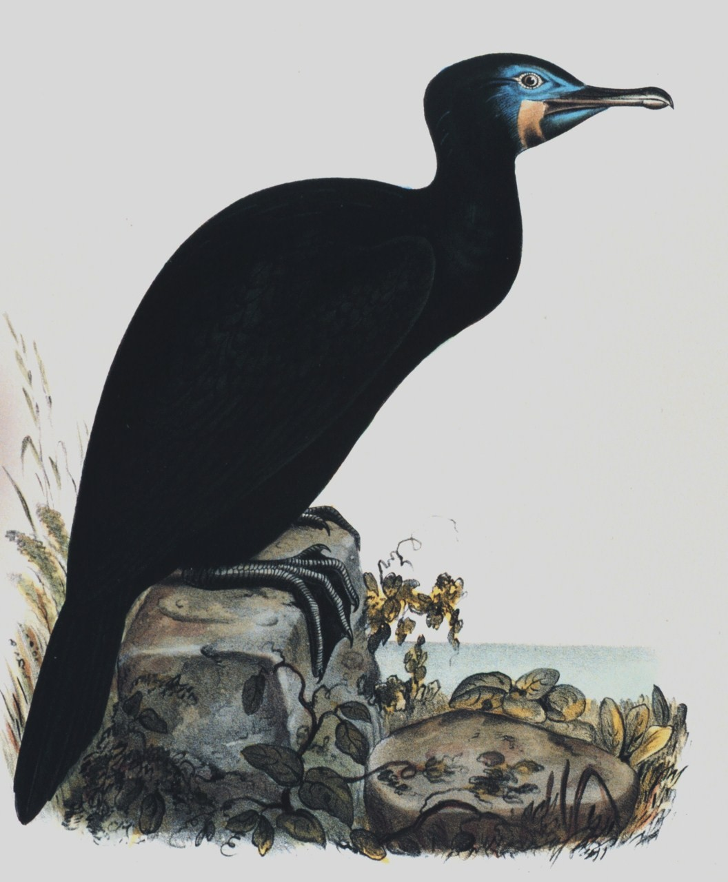 Phalacrocorax penecillatus, Brandt. Brandt's Cormorant. This image was included in: Reports of Explorations and Surveys .... Volume X. 1859. Plate X. P. 80 of U. S. Pacific Railroad Explorations and Surveys between San Francisco and Yuma, Arizona. Call Number F593 .U58 1855 . California